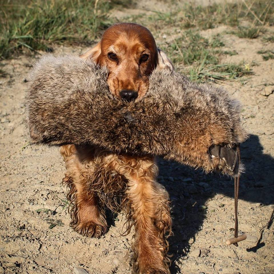 english cocker spaniel dummy training